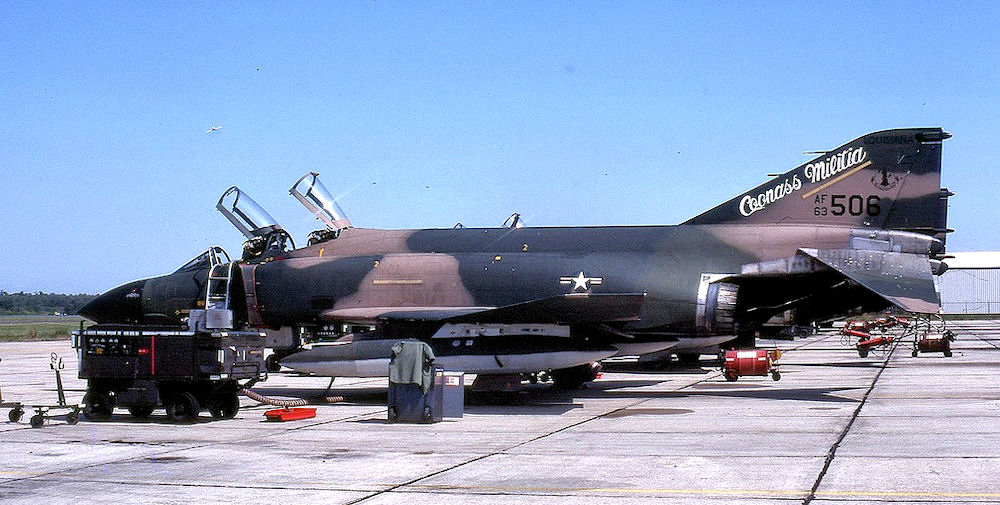 122d Tactical Fighter Squadron - McDonnell F-4C-18-MC Phantom 63-7506 Retired to AMARC as FP0031 Jan 5, 1987 Tail inscription: "Coonass Militia"